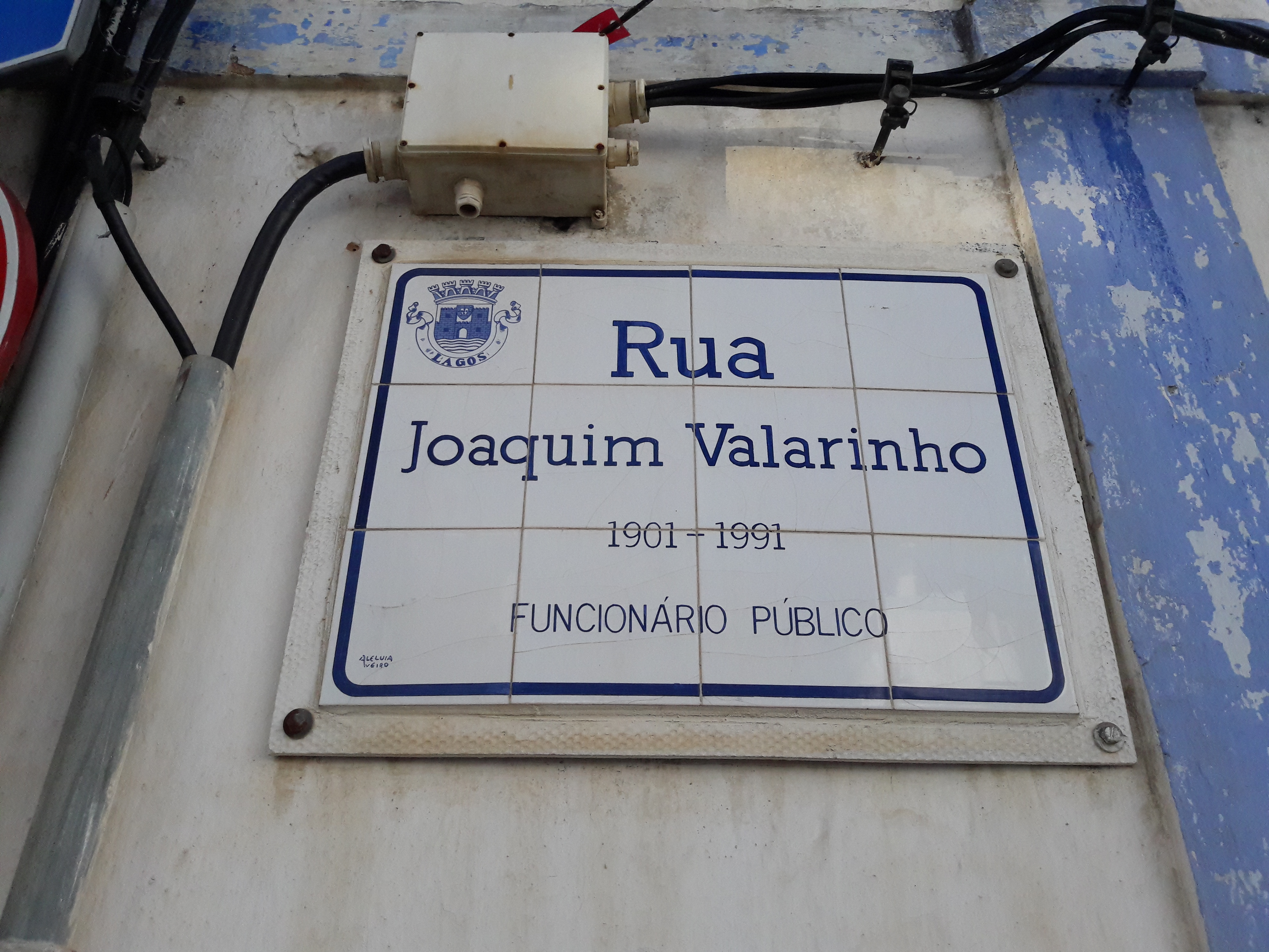 Street sign of Rua Joaquim Valarinho, in the city of Lagos, in southern Portugal.